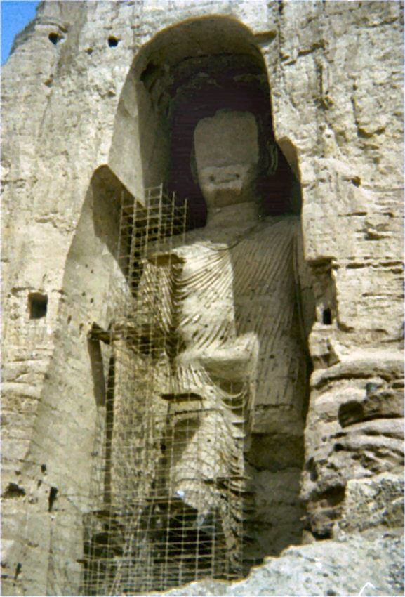 Buddhas of Bamiyan - Statue of Buddha (1976)